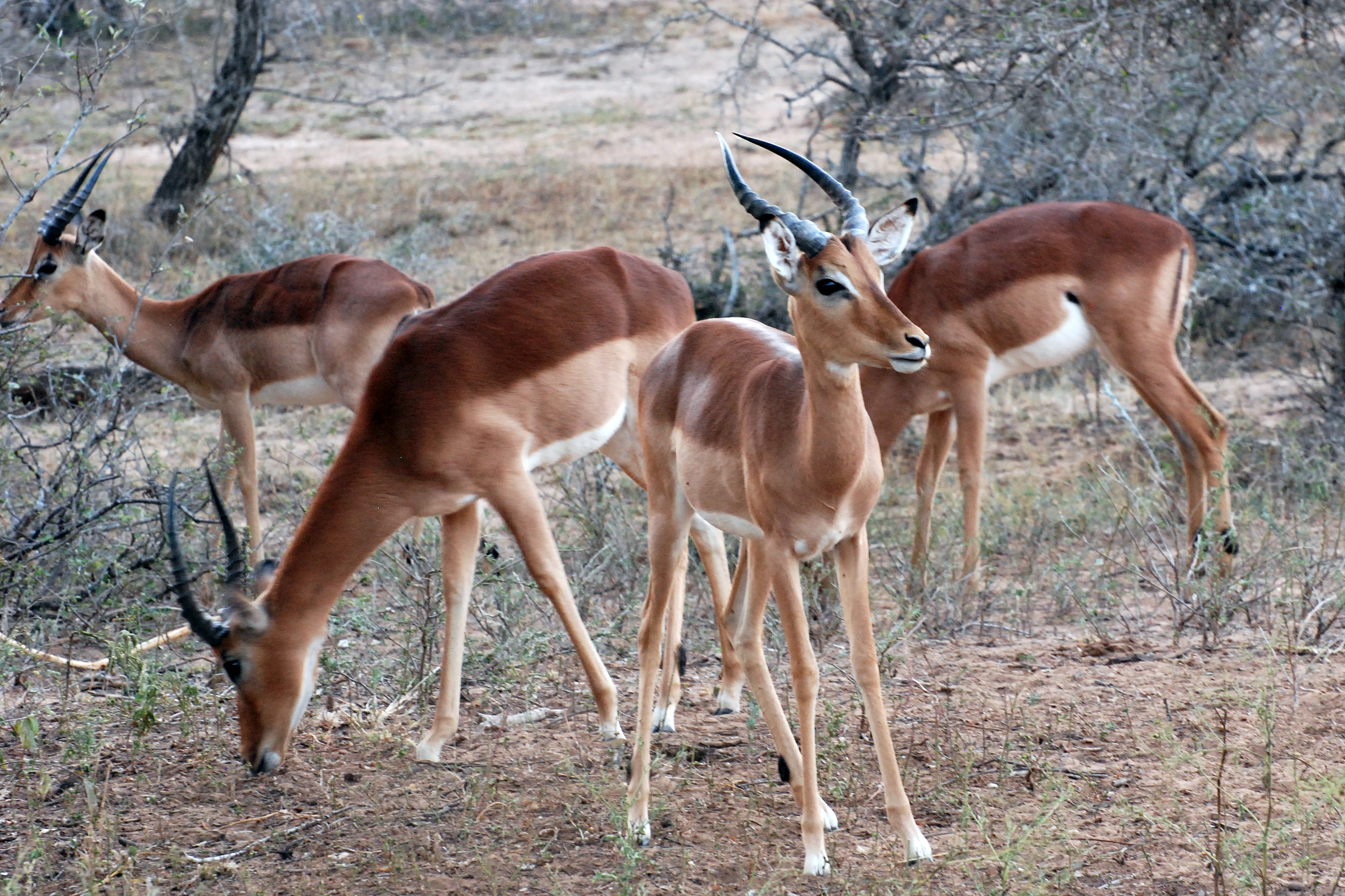 Evening Game Drive - impala (Aepyceros melampus), a medium-sized African antelope.